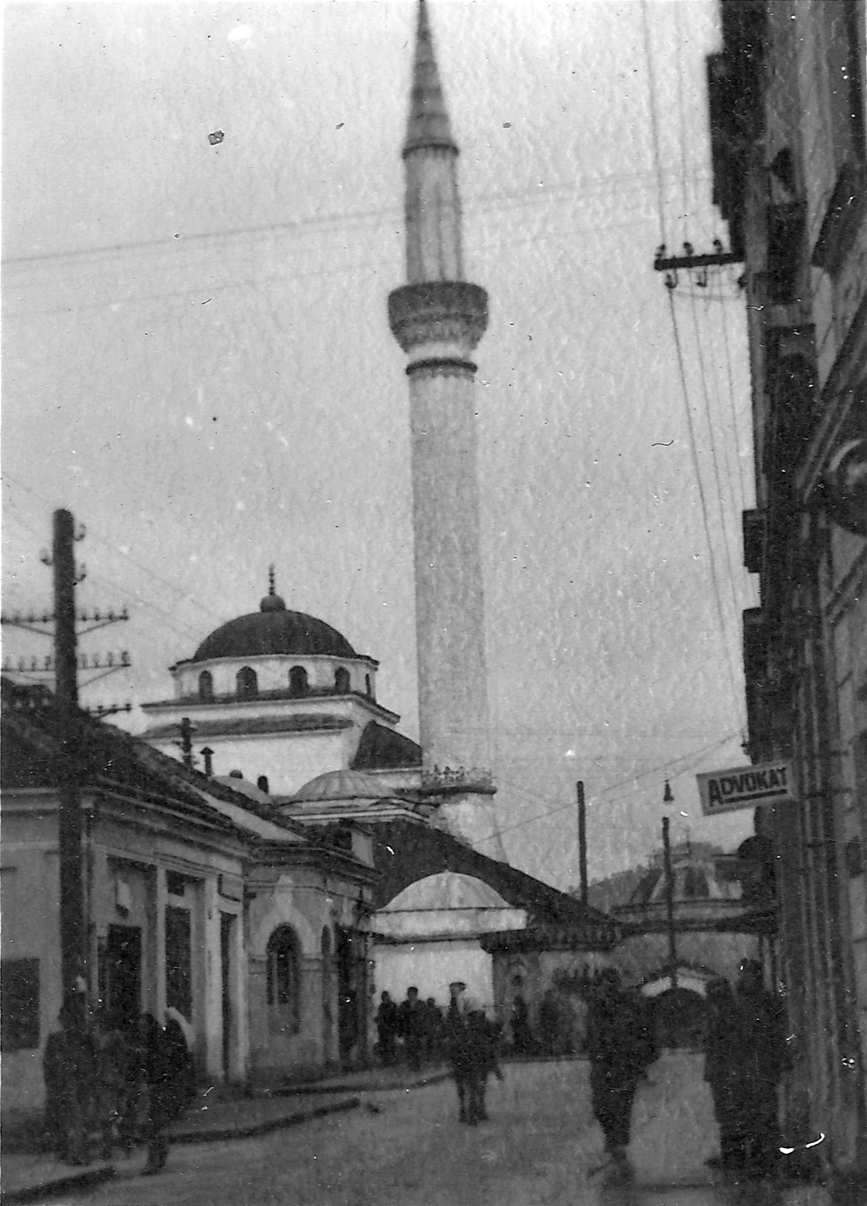 Ferhadija-Moschee picture taken during German Occupation 1941